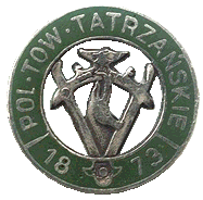 Odznaka PTT